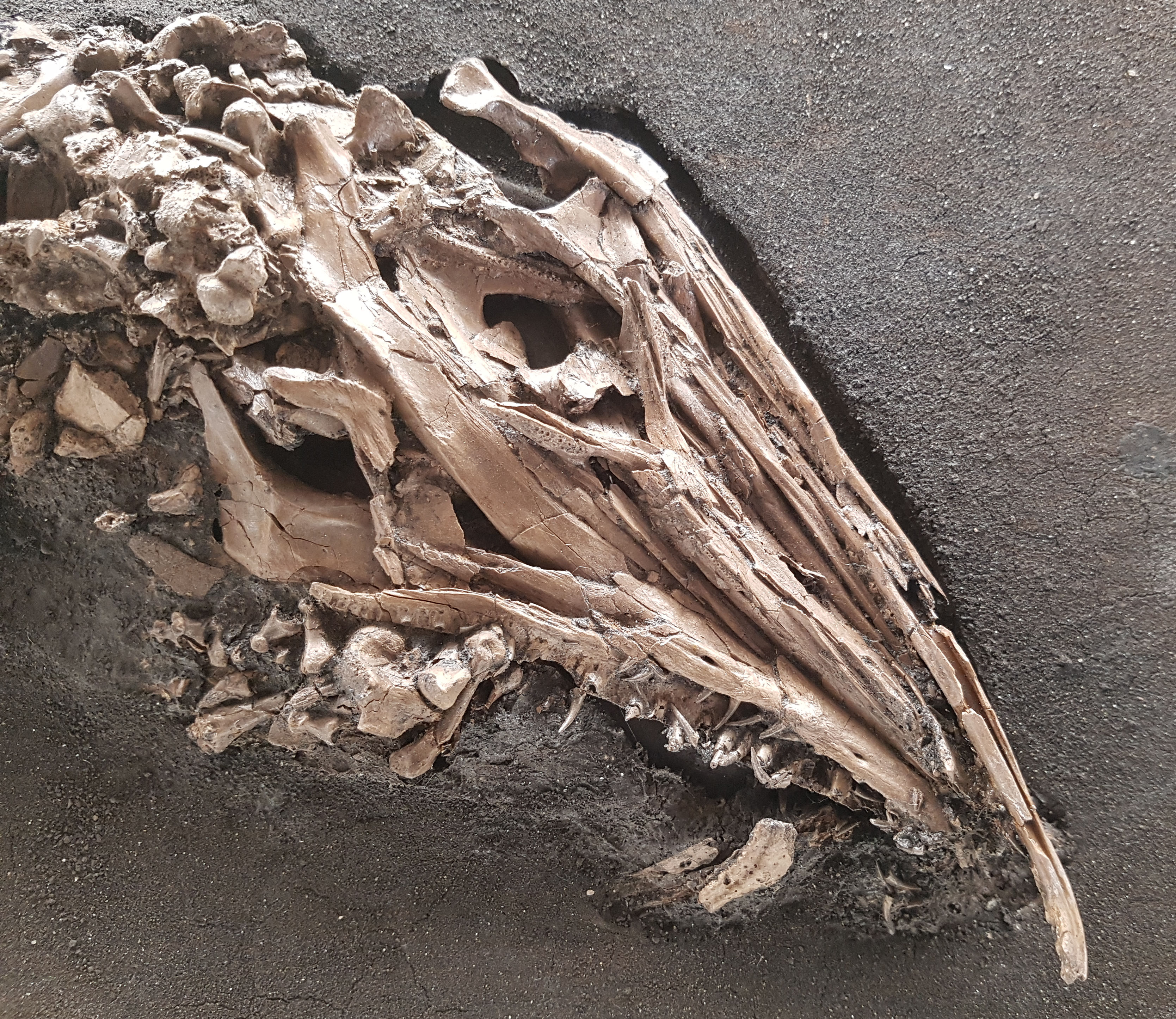 Skull of Eosaniwa from the Geiseltal, Germany, Middle Eocene; took the picture in the Geiseltalmuseum, Halle (Saxony-Anhalt)